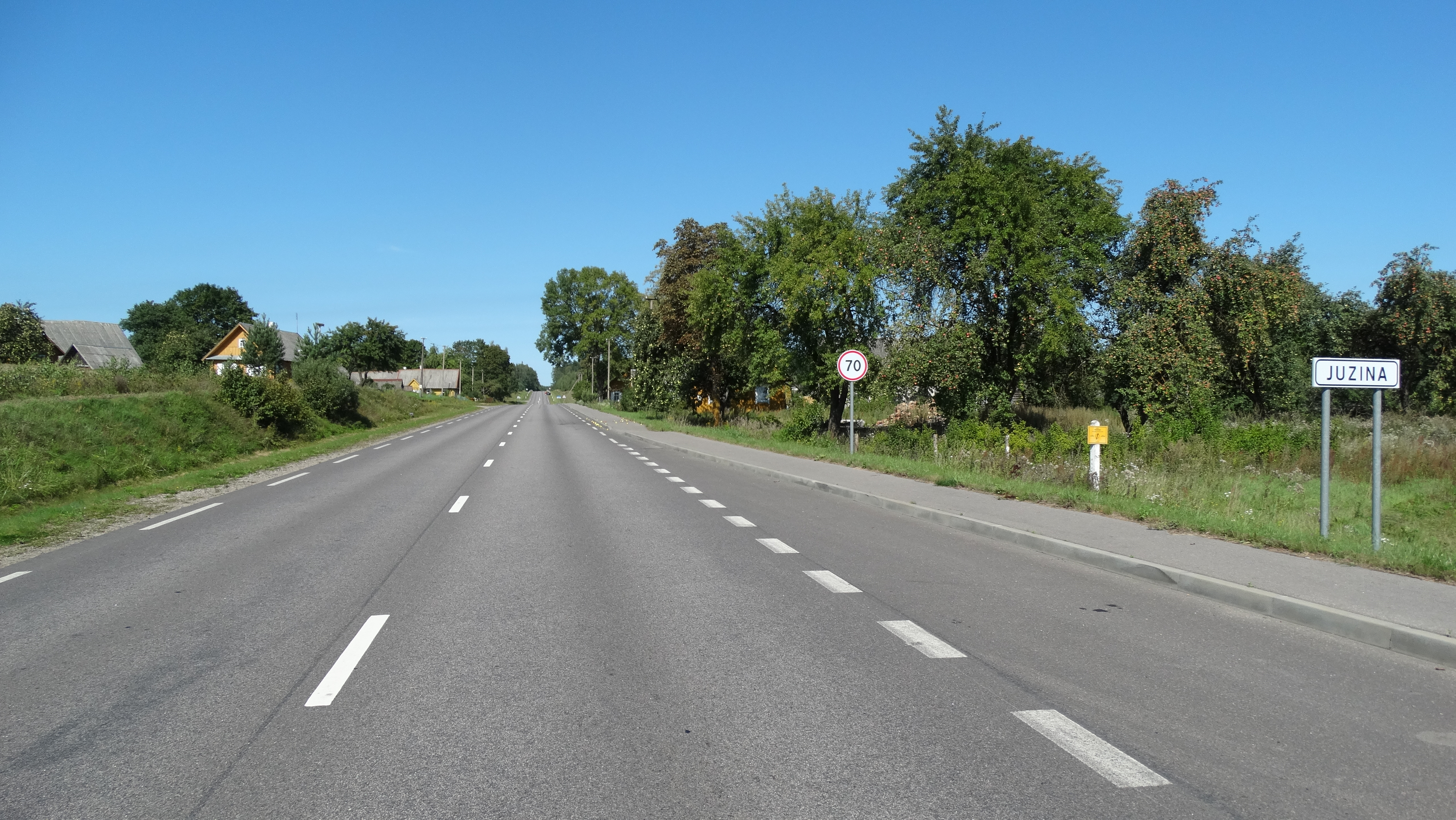 Juzina, Švenčionys District, Lithuania